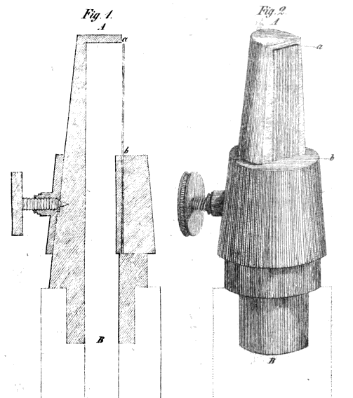 Shows a free reed as Mr. Weber used it to explain related theory. Part of Page 200 in: Eine Zeitschrift für die musicalische Welt, herausgegeben von einem Vereine von Gelehrten, Kunstverständigen und Künstlern. Seite 200, [1]